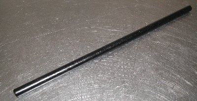 Blued steel pole